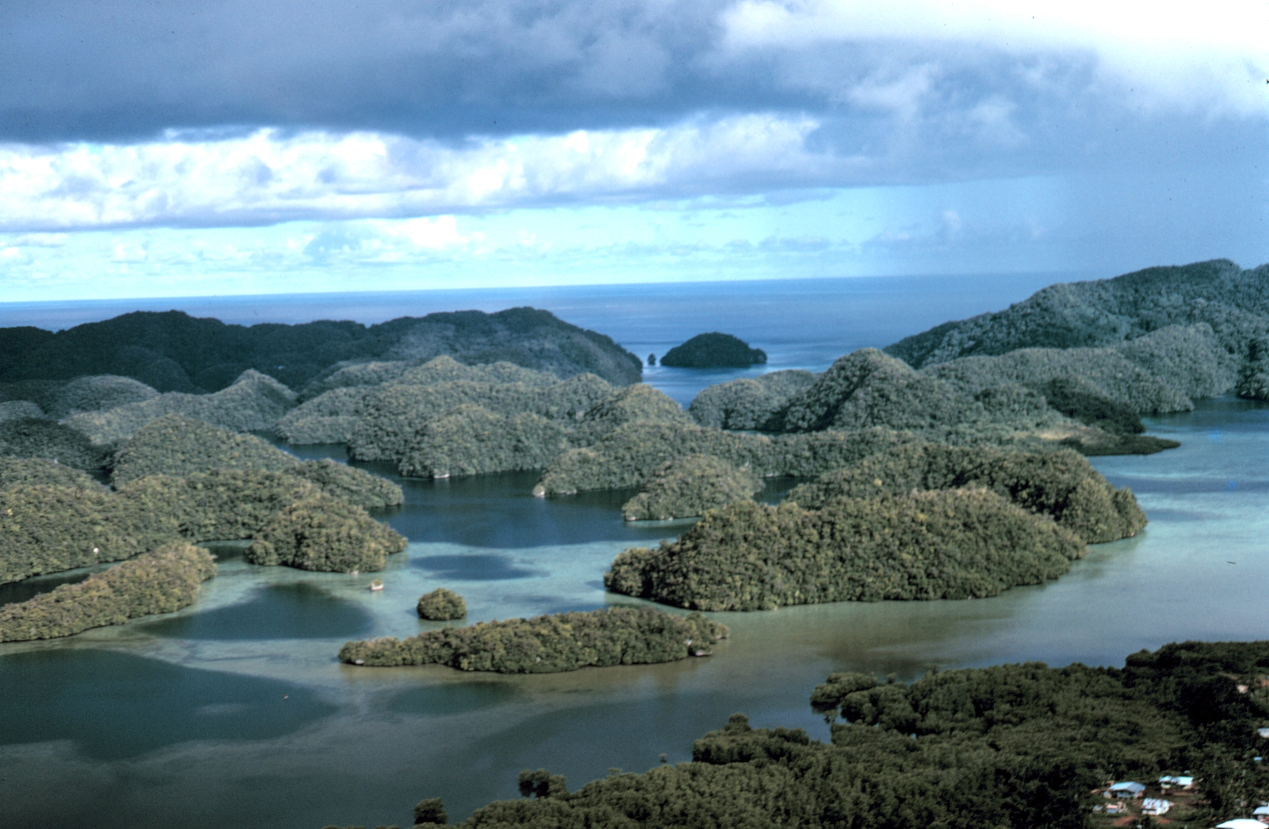 Aerial view of uplifted limestone islands, so called "Rock Islands" in Palau